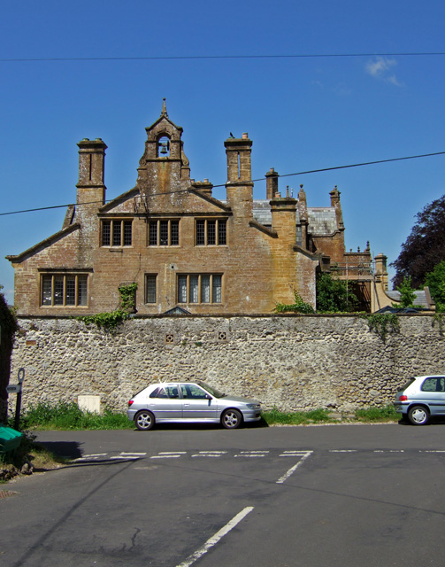 Chedington Court Grade II listed dated C1840, with a remodelled date on the bell-cote of 1894.